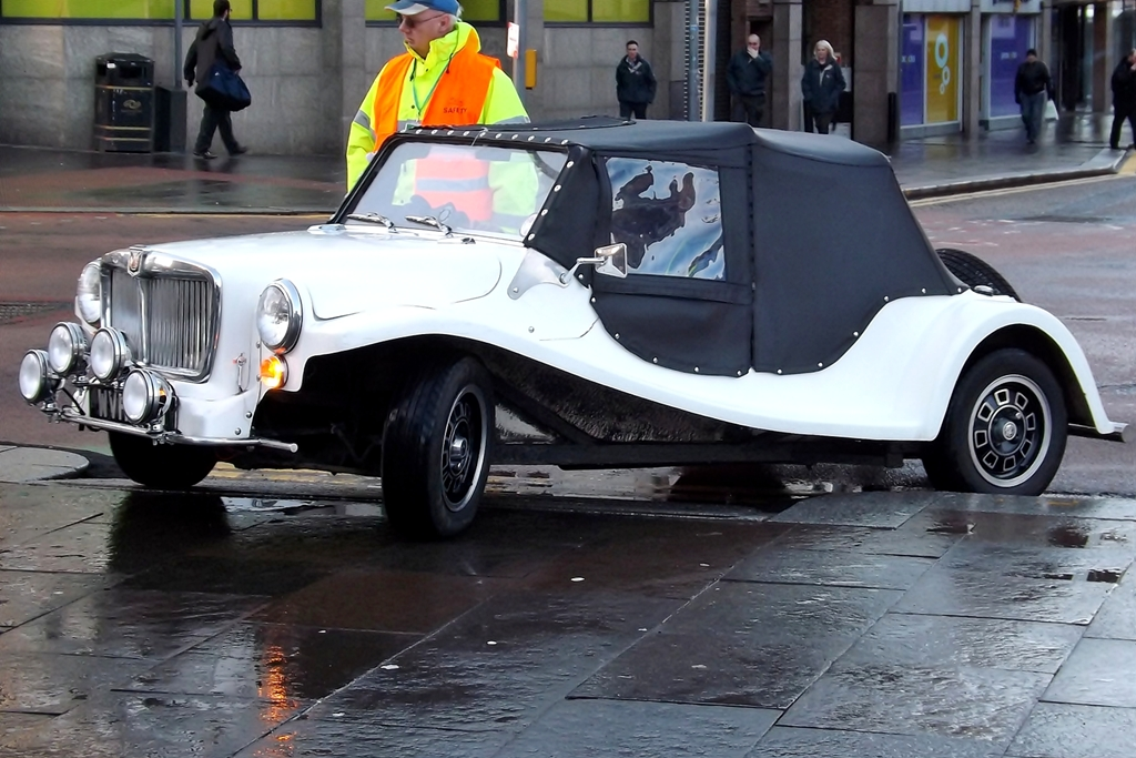 Magenta The Rallye Monte Carlo Historique XVII started from Paisley Abbey on 23rd January 2014, the only UK starting point for this event